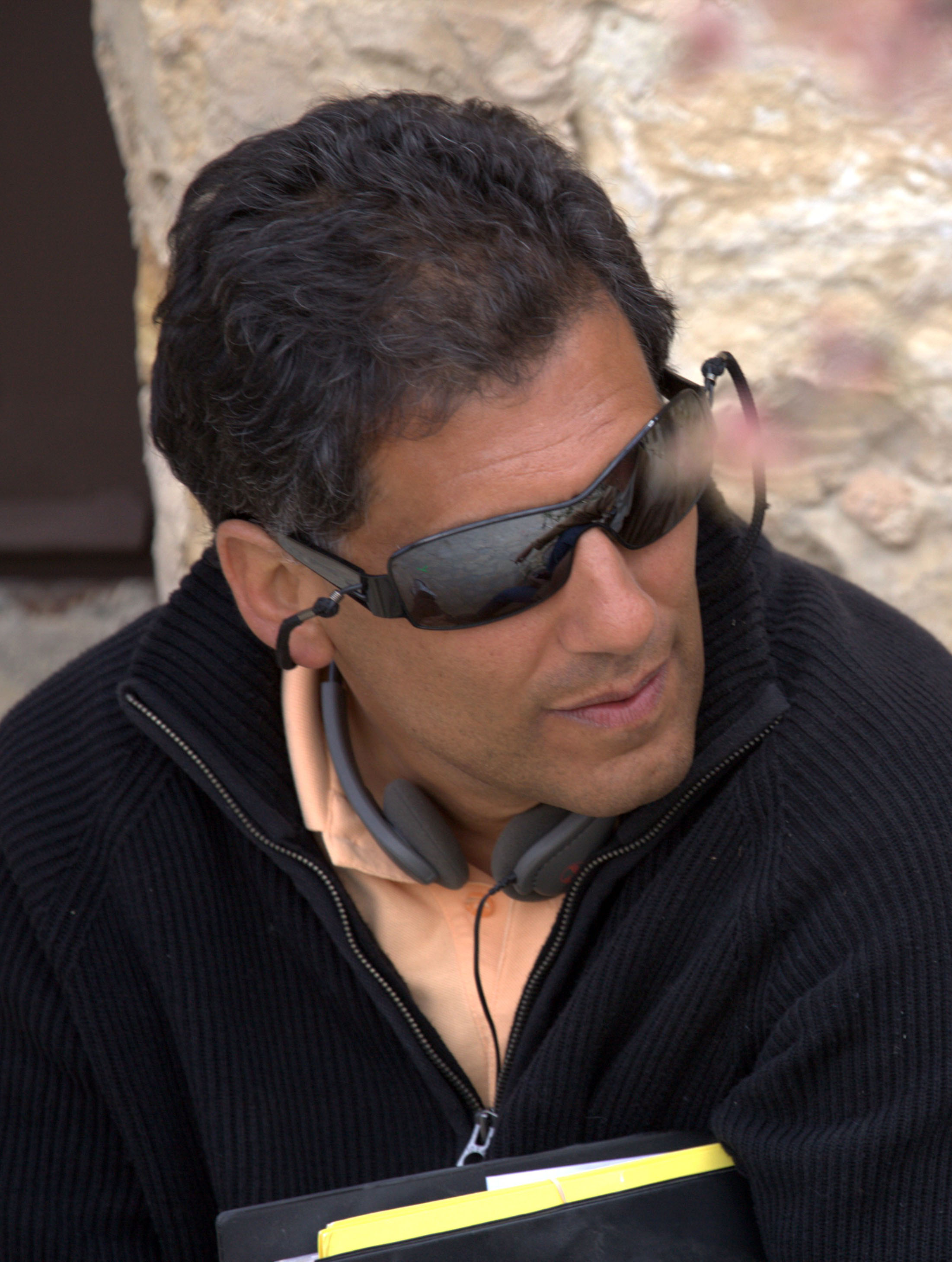 American screenwriter and director Cyrus Nowrasteh, seated wearing sunglasses, during the making of "The Stoning of Soraya M."